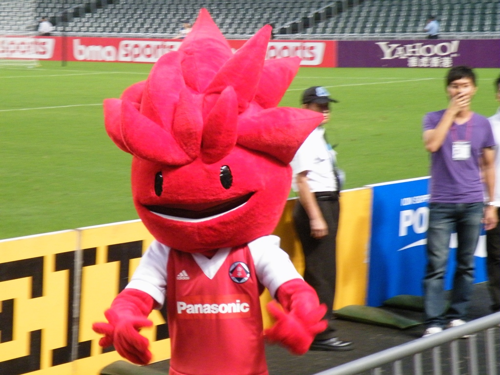 Ballman, The mascot of South China Athletic Association